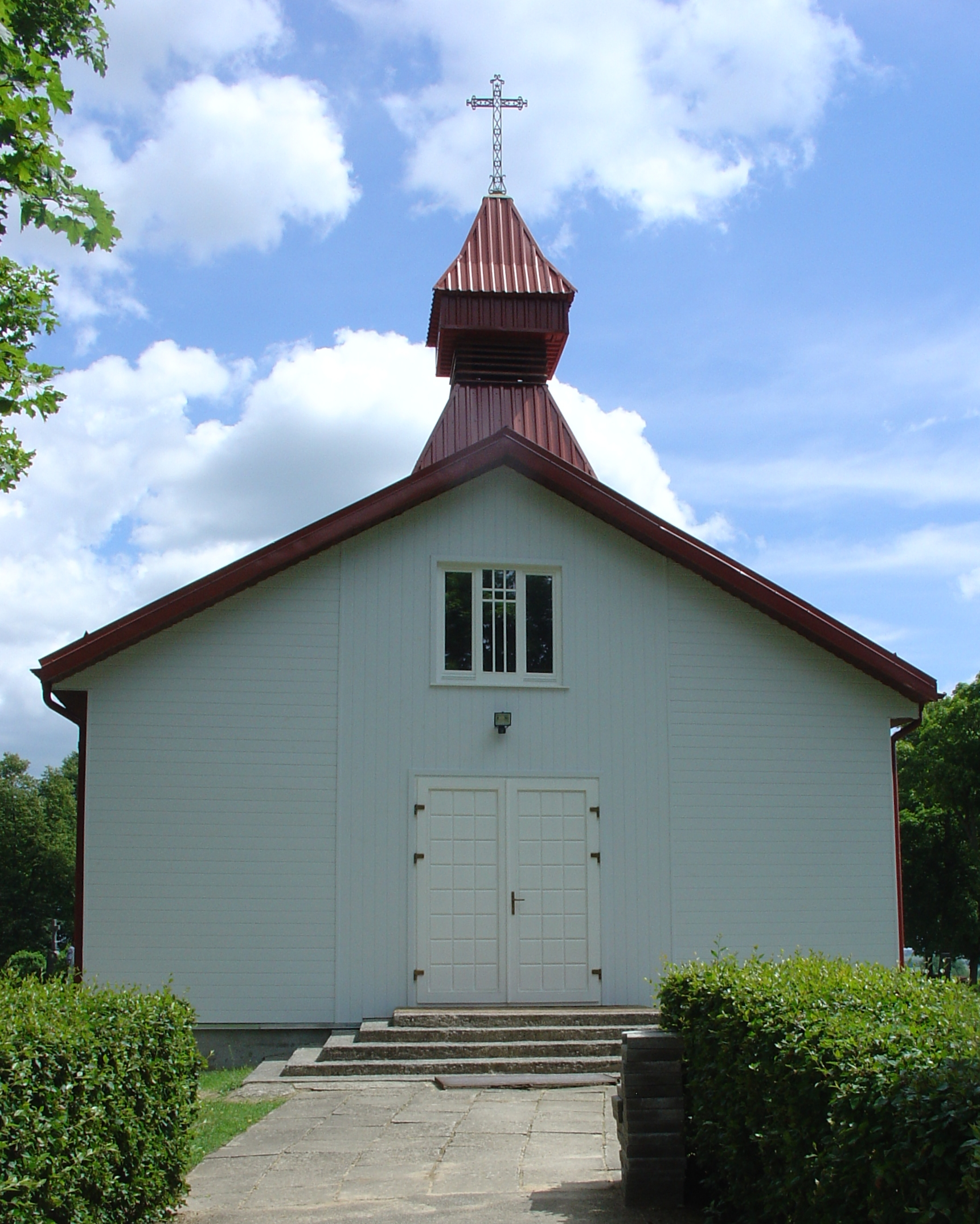 Church in Liubavas, Lithuania